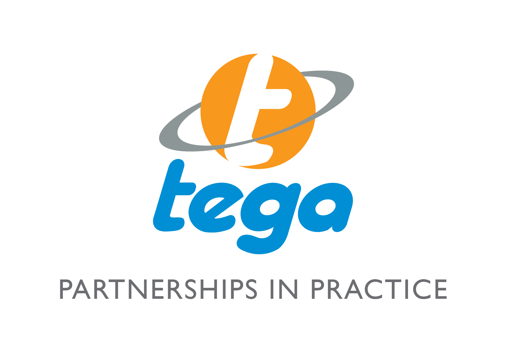 Tega Logo